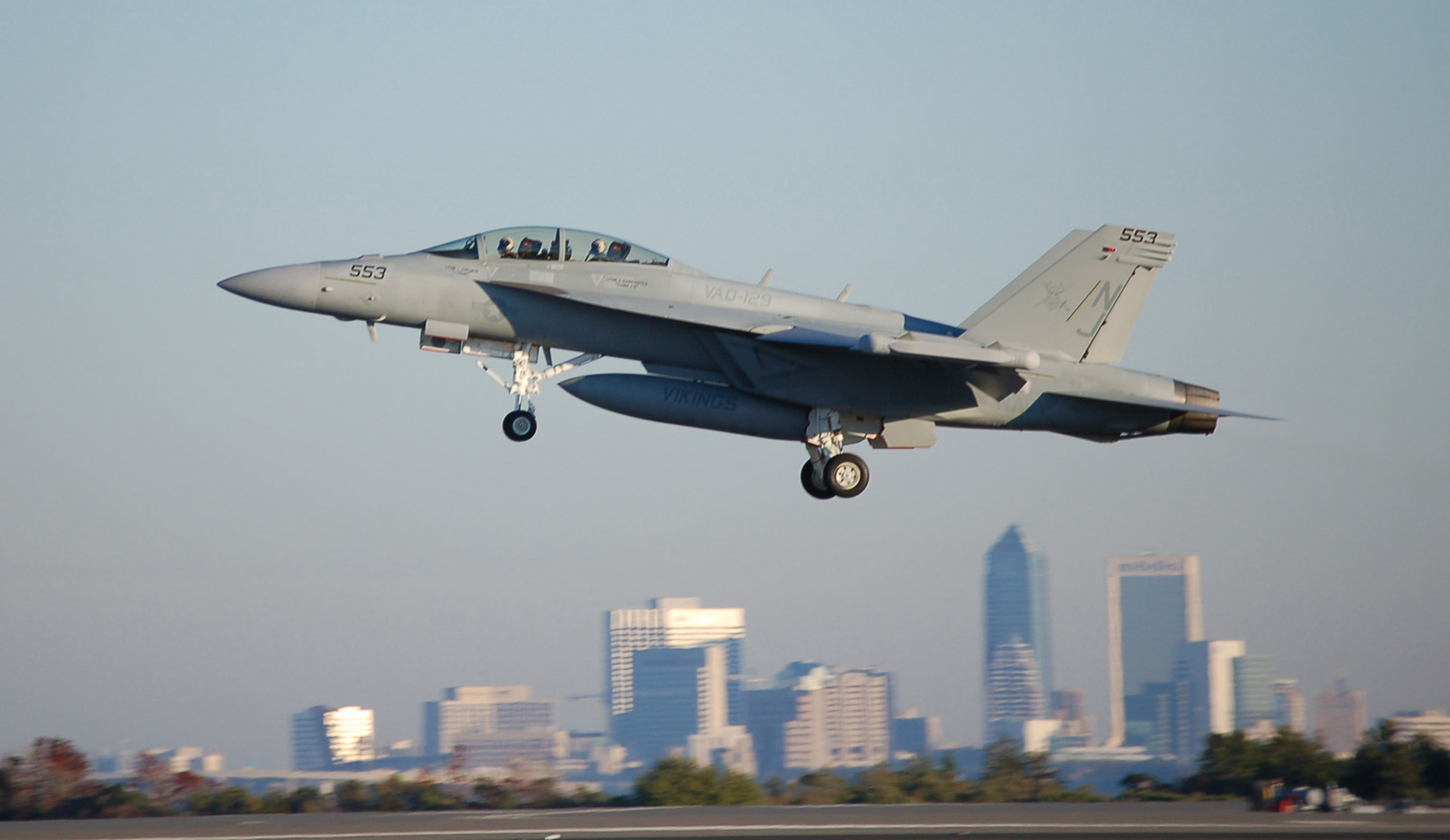 JACKSONVILLE, Fla. (Dec. 7, 2010), Pilots practice touch and go landings in the F/A-18 Super Hornet aircraft at Naval Air Station Jacksonville. The squadron is training in Jacksonville through mid-December as part of their carrier qualifications. (U.S. Navy photo by Clark Pierce/Released)